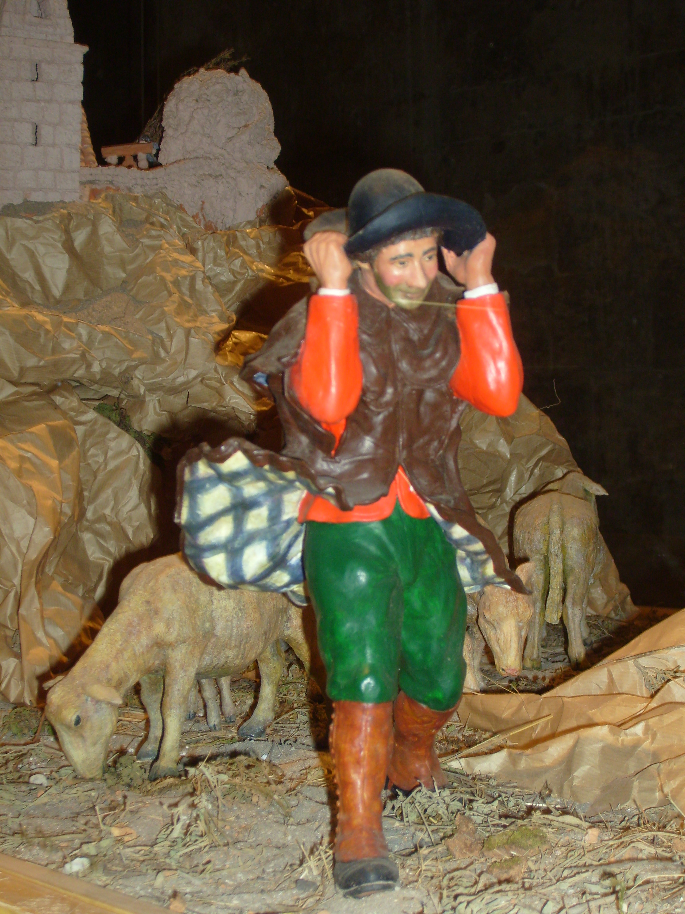 Santon in the mistral wind, from Arles, France.